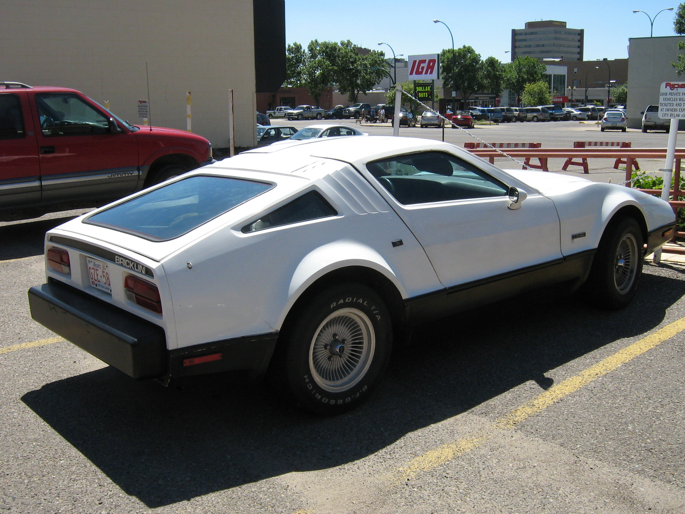 Bricklin seen outside the Lethbridge Street Wheelers Show and Shine